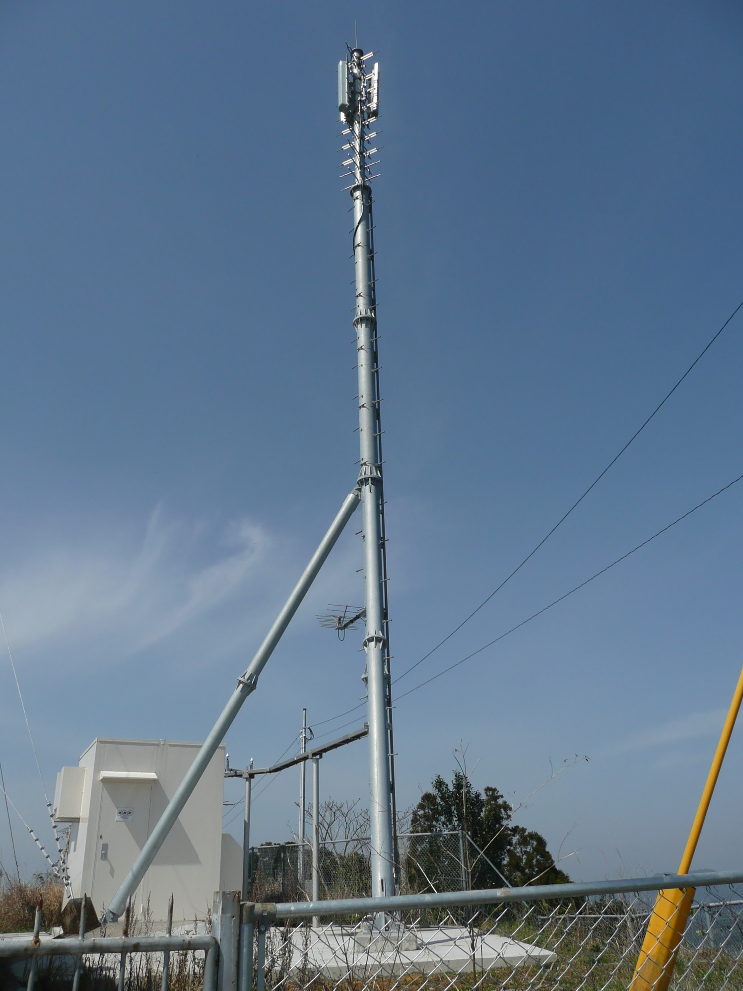 Shibushi Digital TV Repeater (NHK Kagoshima - Shibushi City, Kagoshima, Japan)